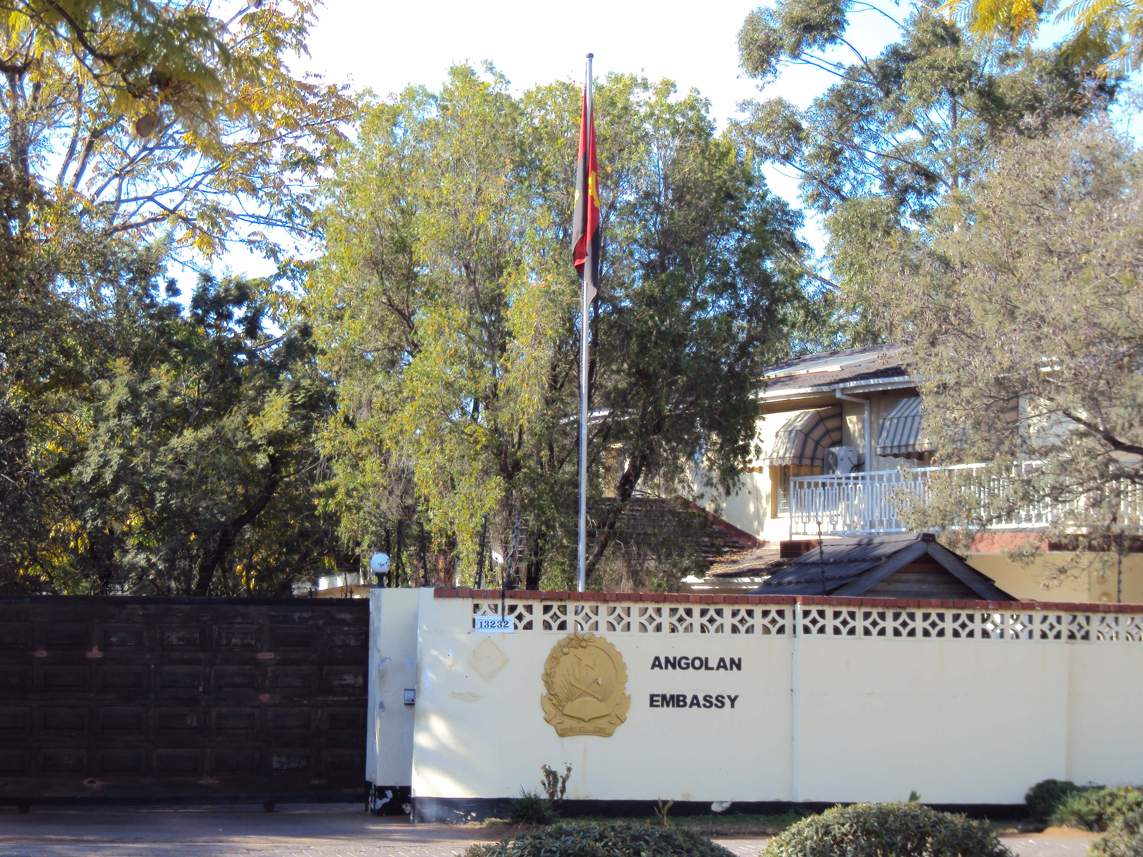 Angolan Embassy - Gaborone, Botswana